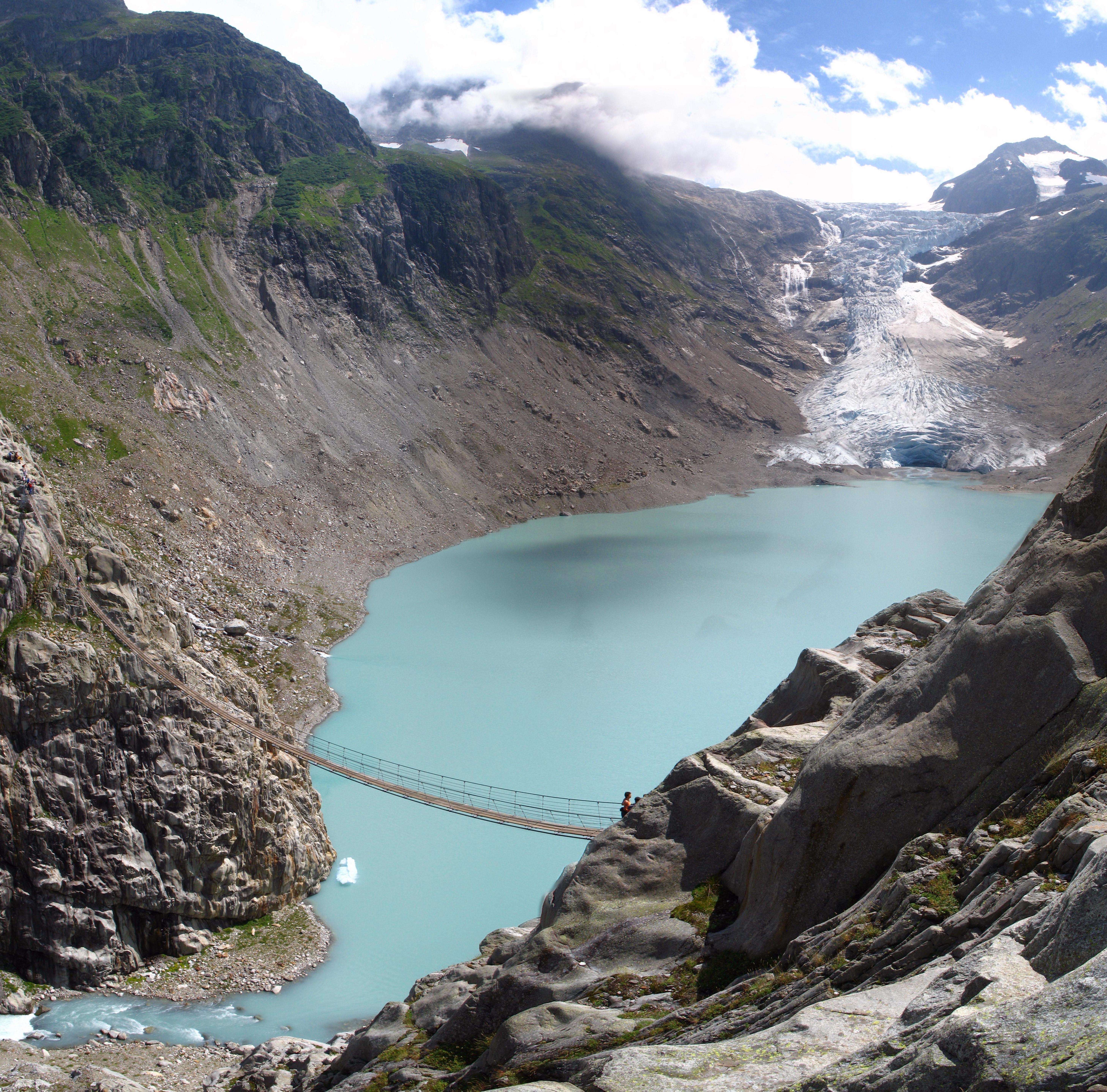 View of the Trift Bridge and the Trift Glacier, Gadmen, Switzerland.